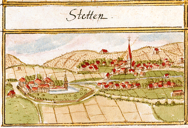 View of Stetten im Remstal, Kernen im Remstal, from the forest register books created by Andreas Kieser